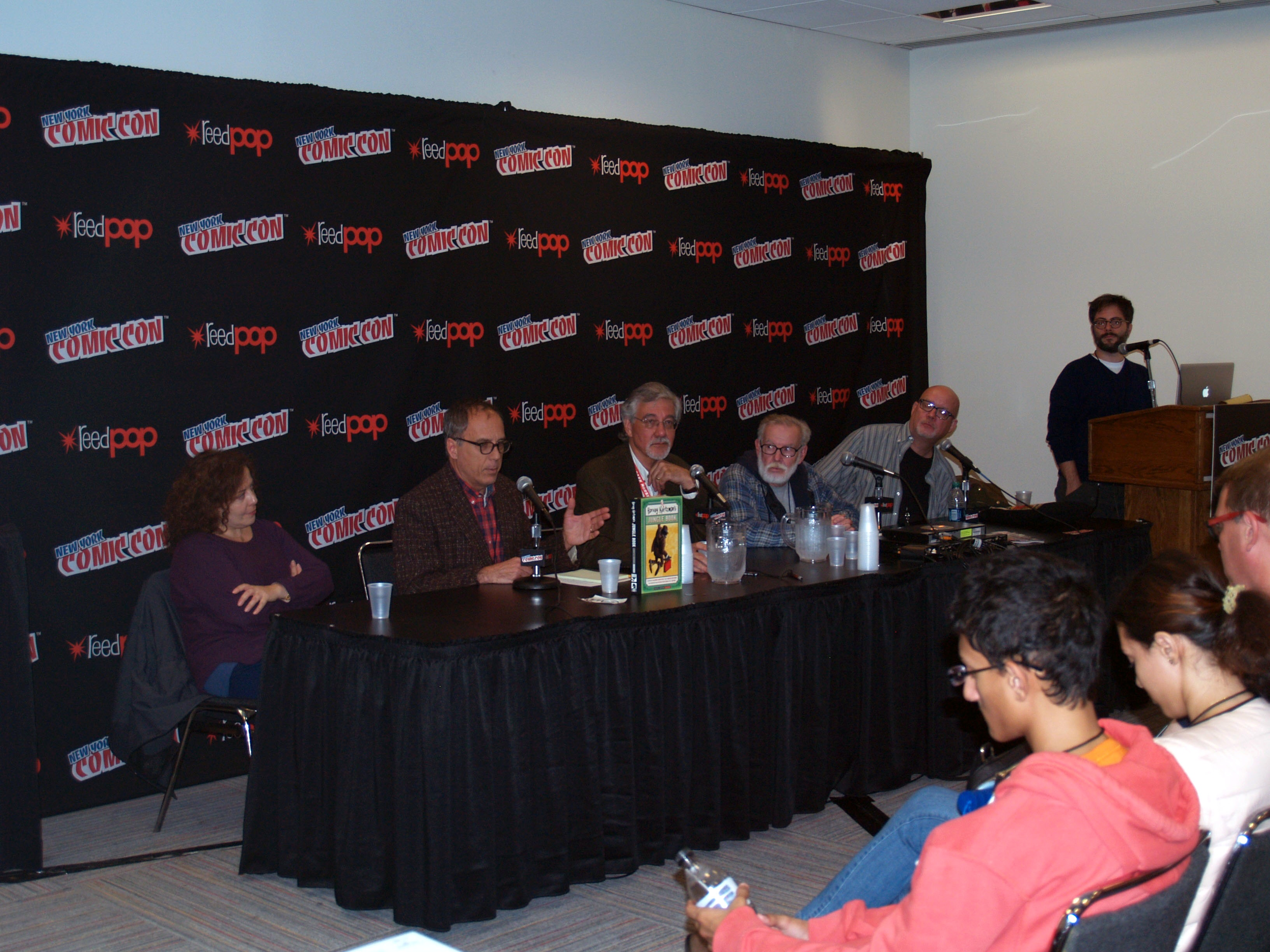 Discussion panel on Harvey Kurtzman's Jungle Book on Saturday, October 11, 2014 at the Jacob K. Javits Convention Center in Manhattan, Day 3 of the 2014 New York Comic Con. From left to right are Kurtzman's daughter, Nellie Kurtzman, author and professor David Hajdu, cartoonist and publisher Denis Kitchen, cartoonists Jay Lynch and John Holmstrom and comics critic and editor Bill Kartapolous, acting as moderator. This photo was created by Luigi Novi. It is not in the public domain, and use of this file outside of the licensing terms is a copyright violation.